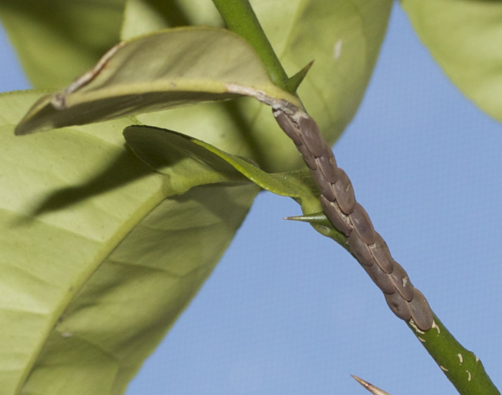 Katydid eggs from my garden in Massachusetts, contact me